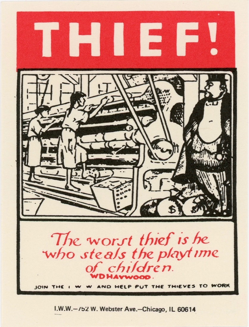 Image of children working in a factory